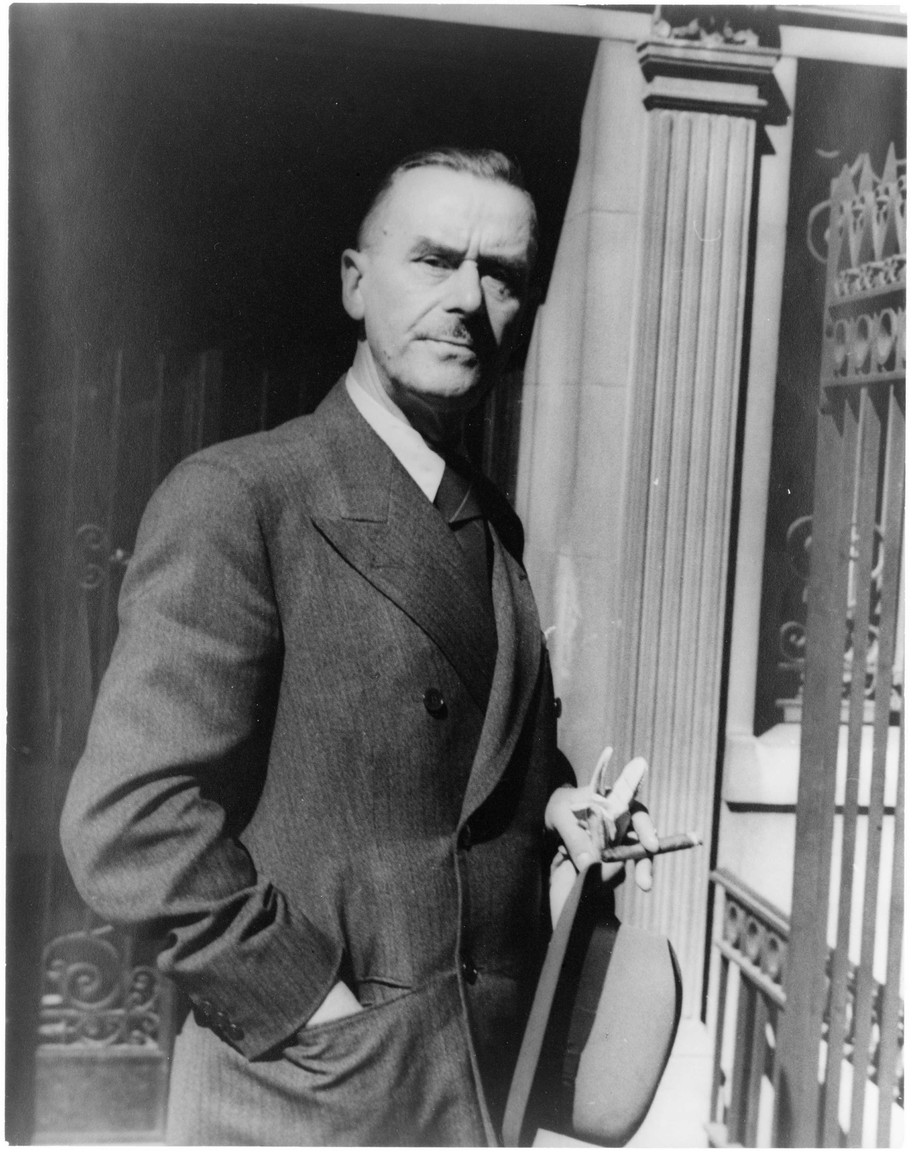 Thomas Mann, 20 April 1937